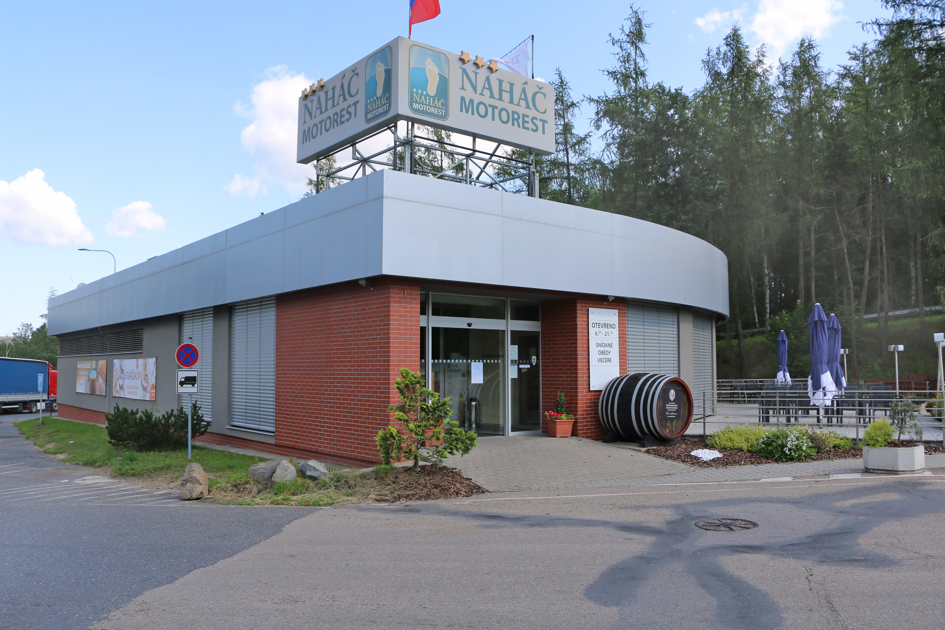 Roadhouse at Naháč, part of Vranov, Czech Republic.